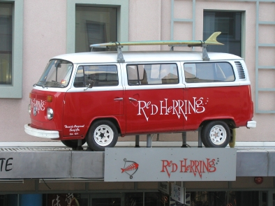 Red Herring Headquarters (picture taken by dbach)